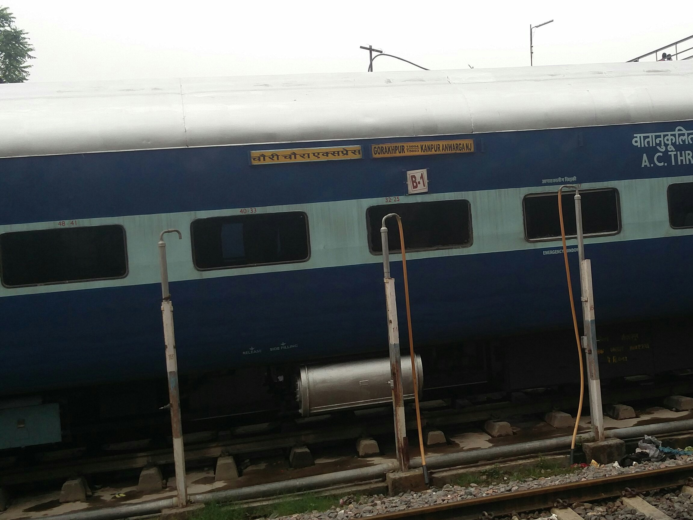 Chauri Chaura Express ready to depart from Kanpur Anwarganj station